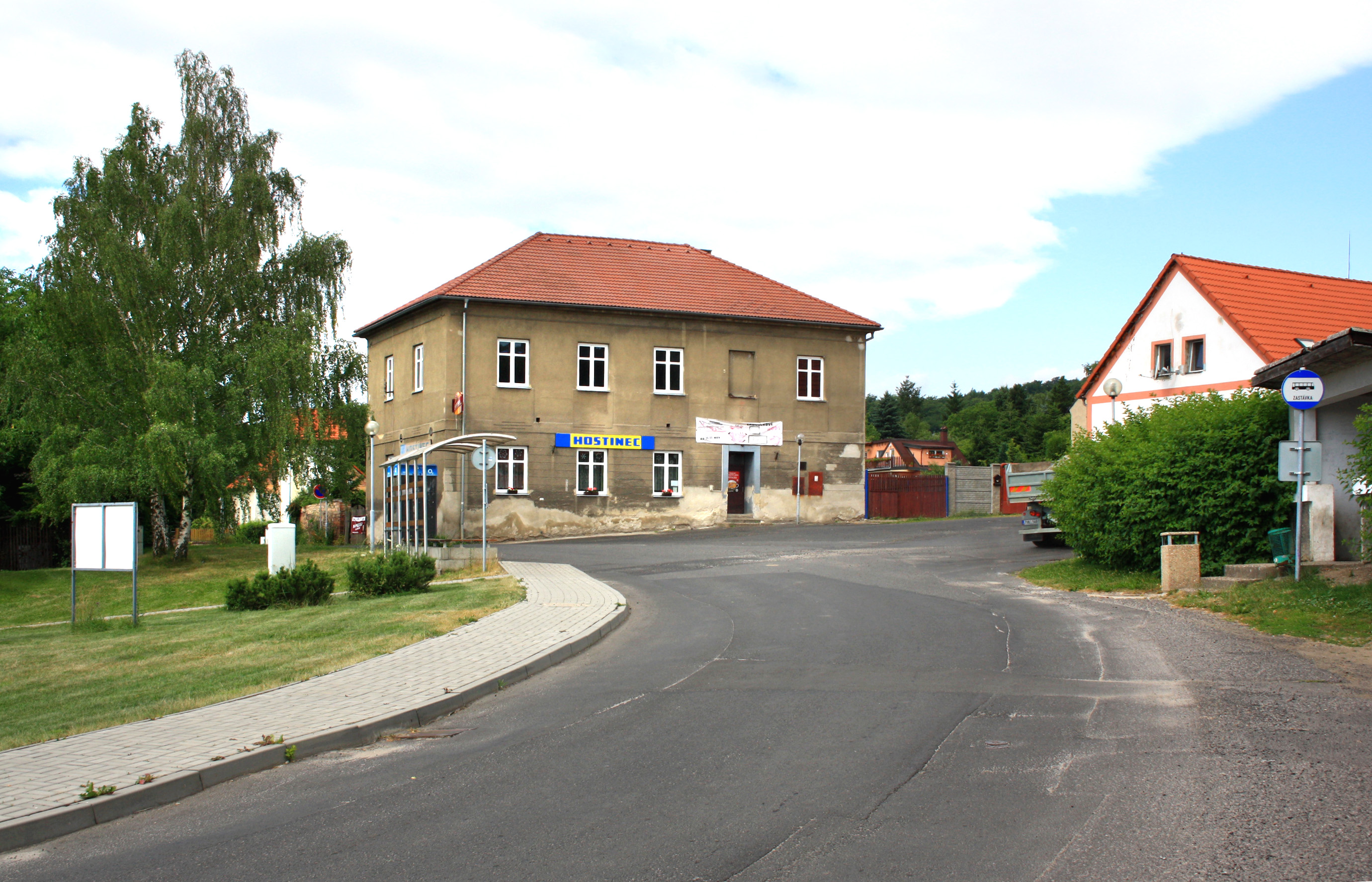 Restaurant in Drmaly, part of Vysoká Pec village, Czech Republic